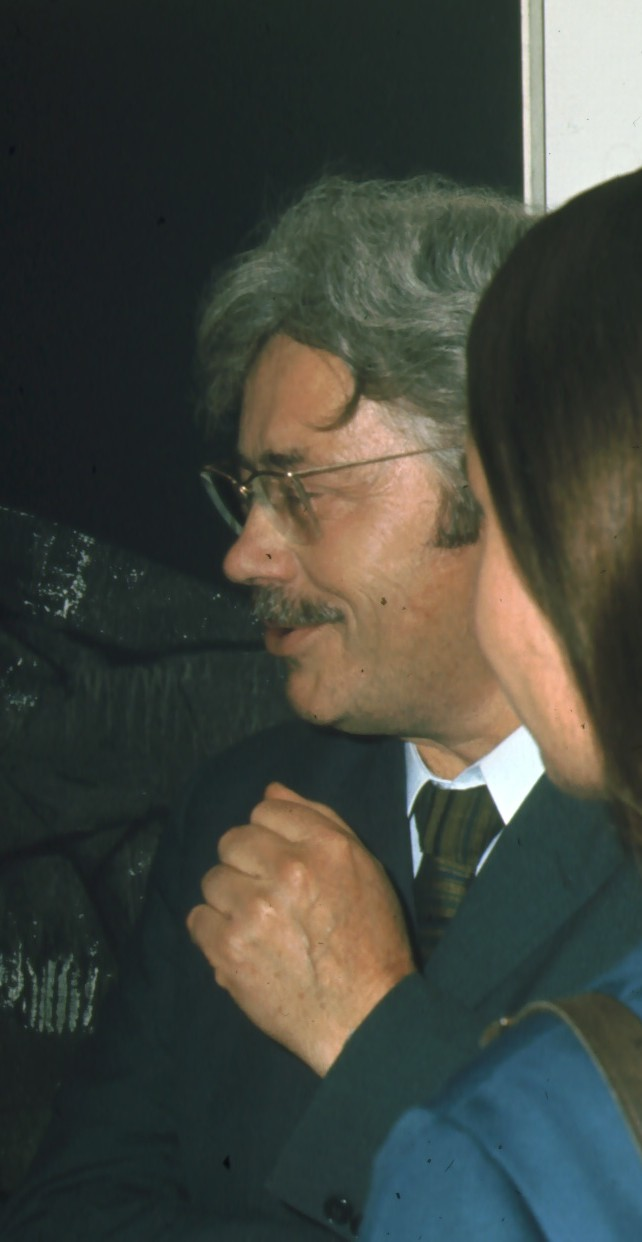 Rolf Hartung, at an exhibition